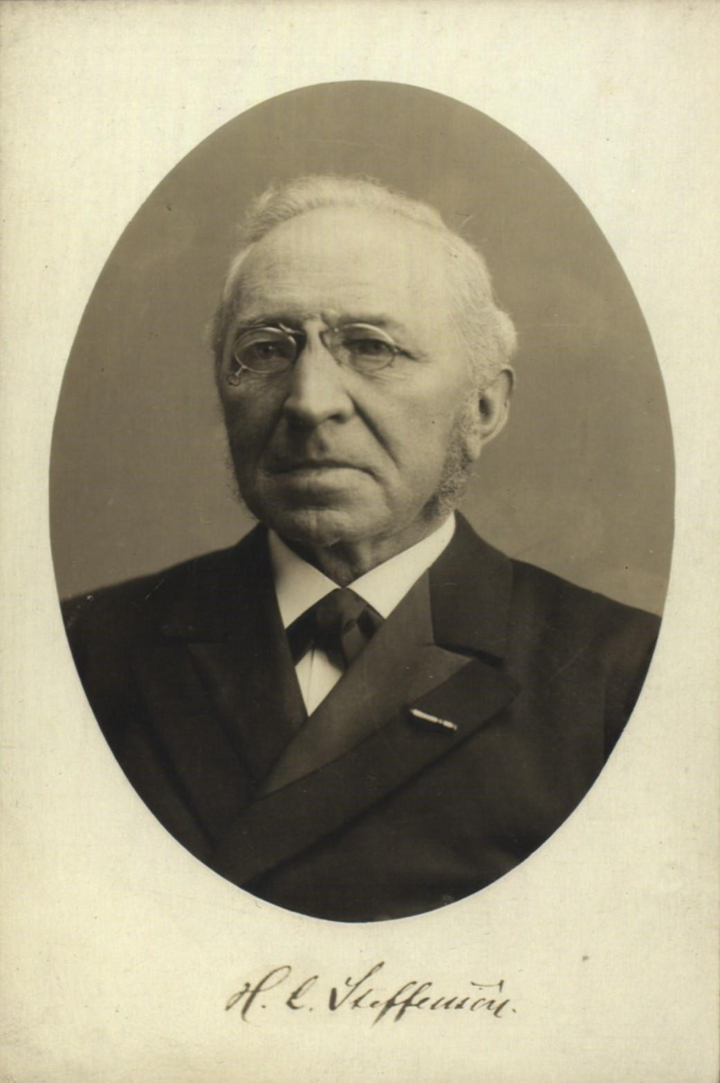 Danish politician, MP Hans Christian Steffensen (1837-1912)